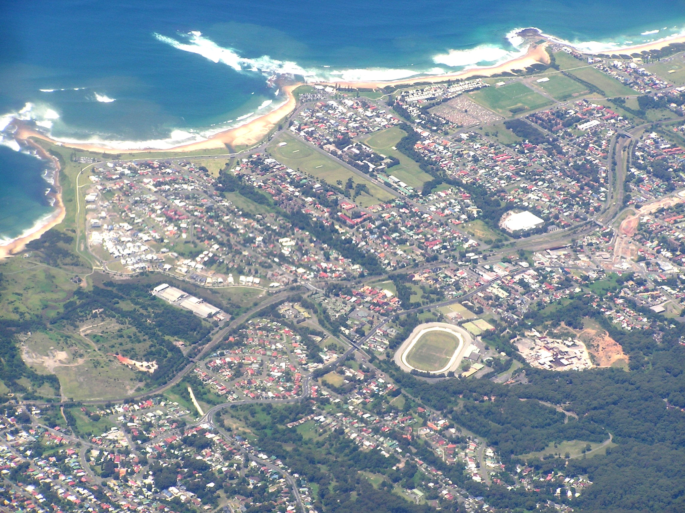 Areal photo of Bulli New South Wales